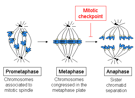 Drawing showing chromosomes in the mitotic spindle, from prometaphase to anaphase.